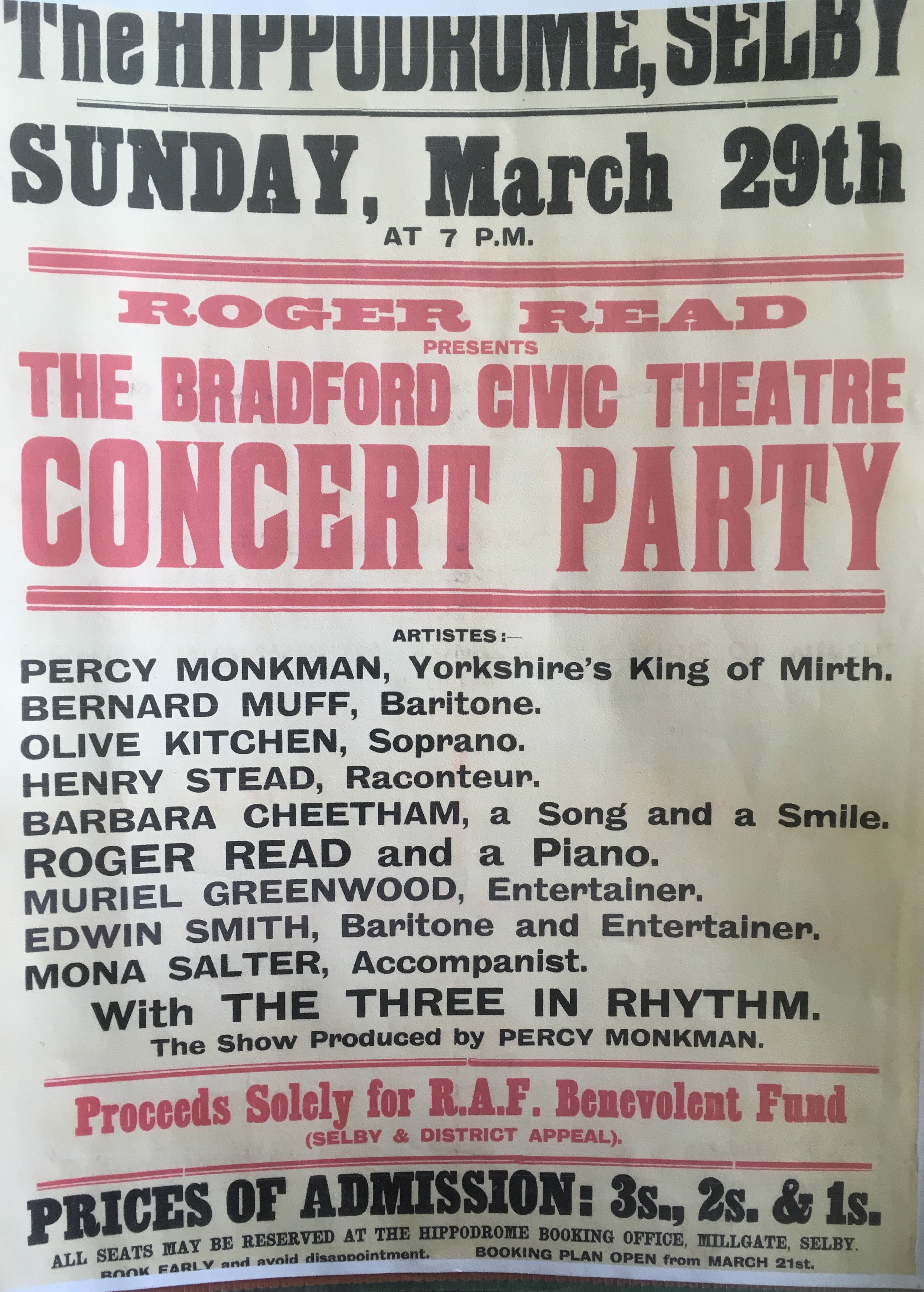 The Hippodrome, Selby